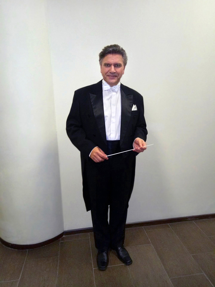 Crocus City Hall. Moscow. Крокус Сити Холл. Москва; Дирижер Роман Моисеев Conductor Roman Moiseyev